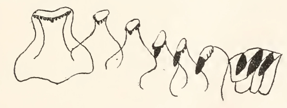 Diloma nigerrima (Gmelin, 1791); radula of a New Zealand specimen; family Trochidae